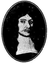 Johan Hadorph